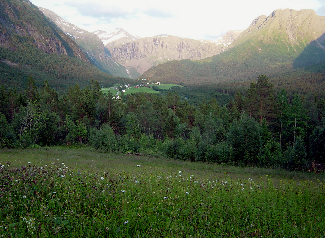 Rauma, from Isfjorden i Rauma and the valley Dalsbygda (Rauma)